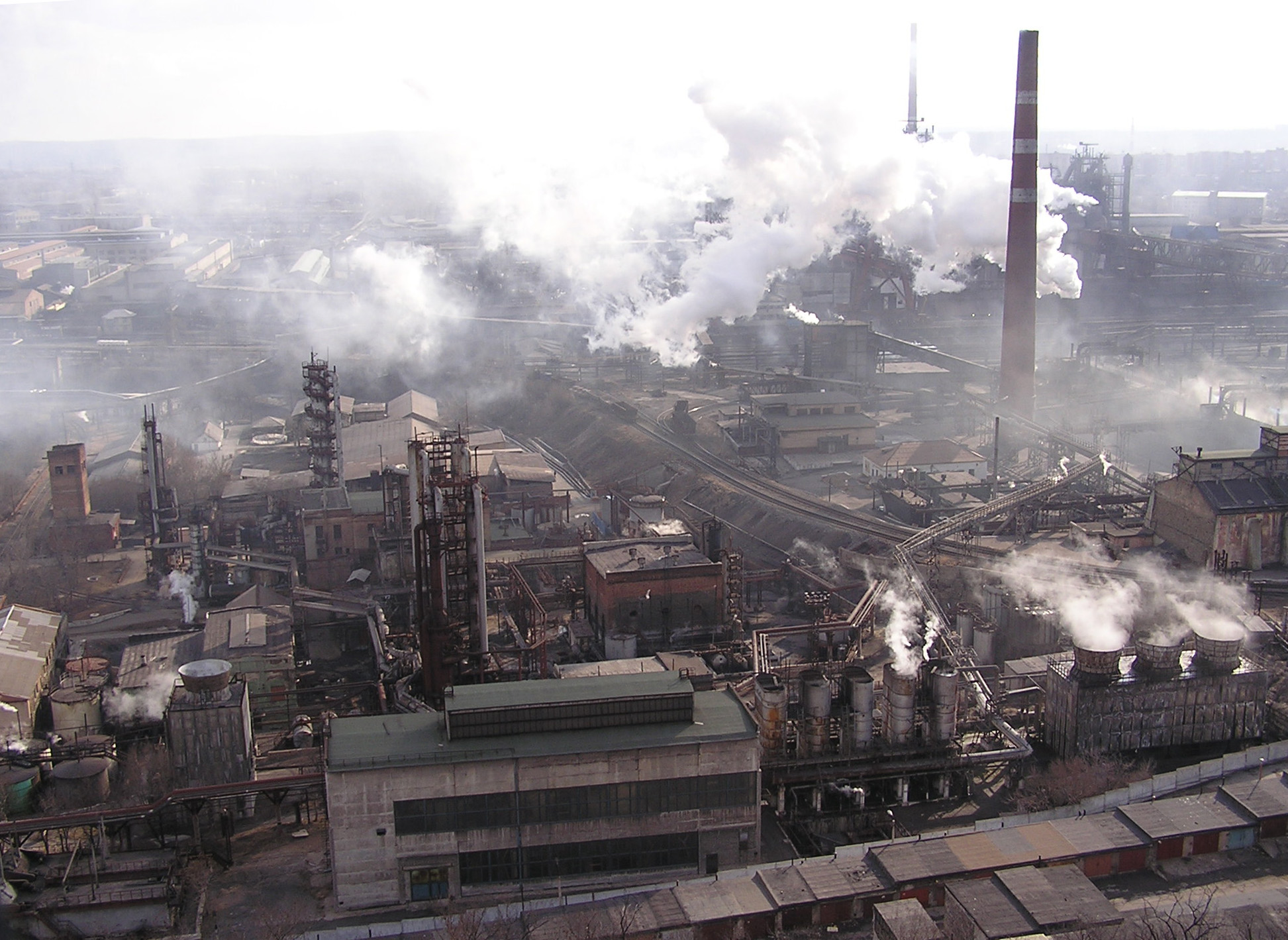 Donetsk metallurgical plant